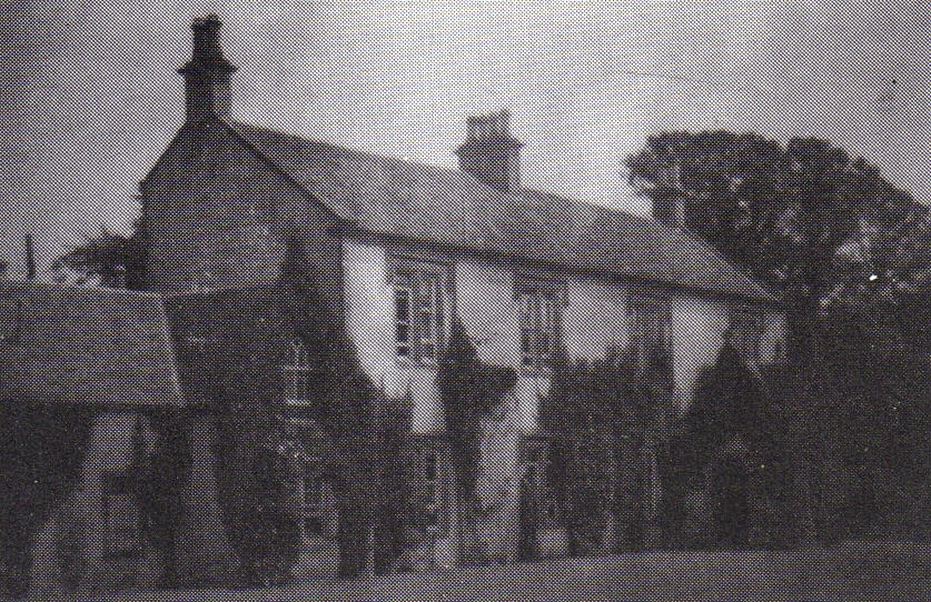 Chapeltoun House prior to demolition in 1908, East Ayrshire, Scotland. A new Chapeltoun House was built above the site.